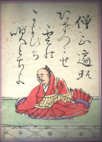 A portrait of Sōjō Henjō; illustration from an uta-garuta playing card for Hyakunin Isshu, created in the Edo period.